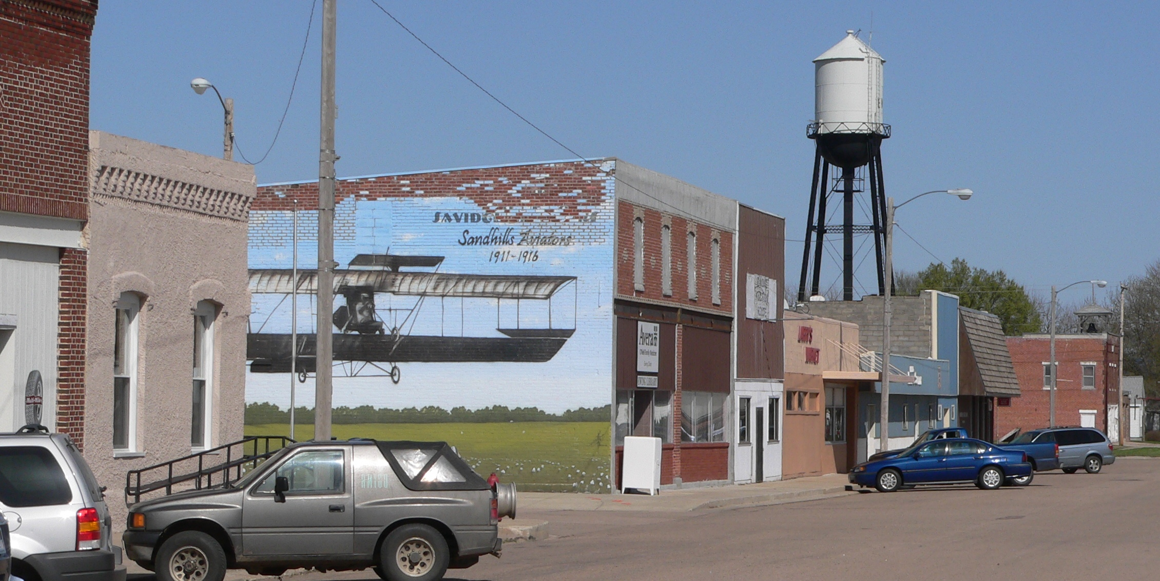 Downtown Ewing, Nebraska: north side of East Nebraska Street. The mural commemorates the Savidge brothers, who were among the first aviators in Nebraska.